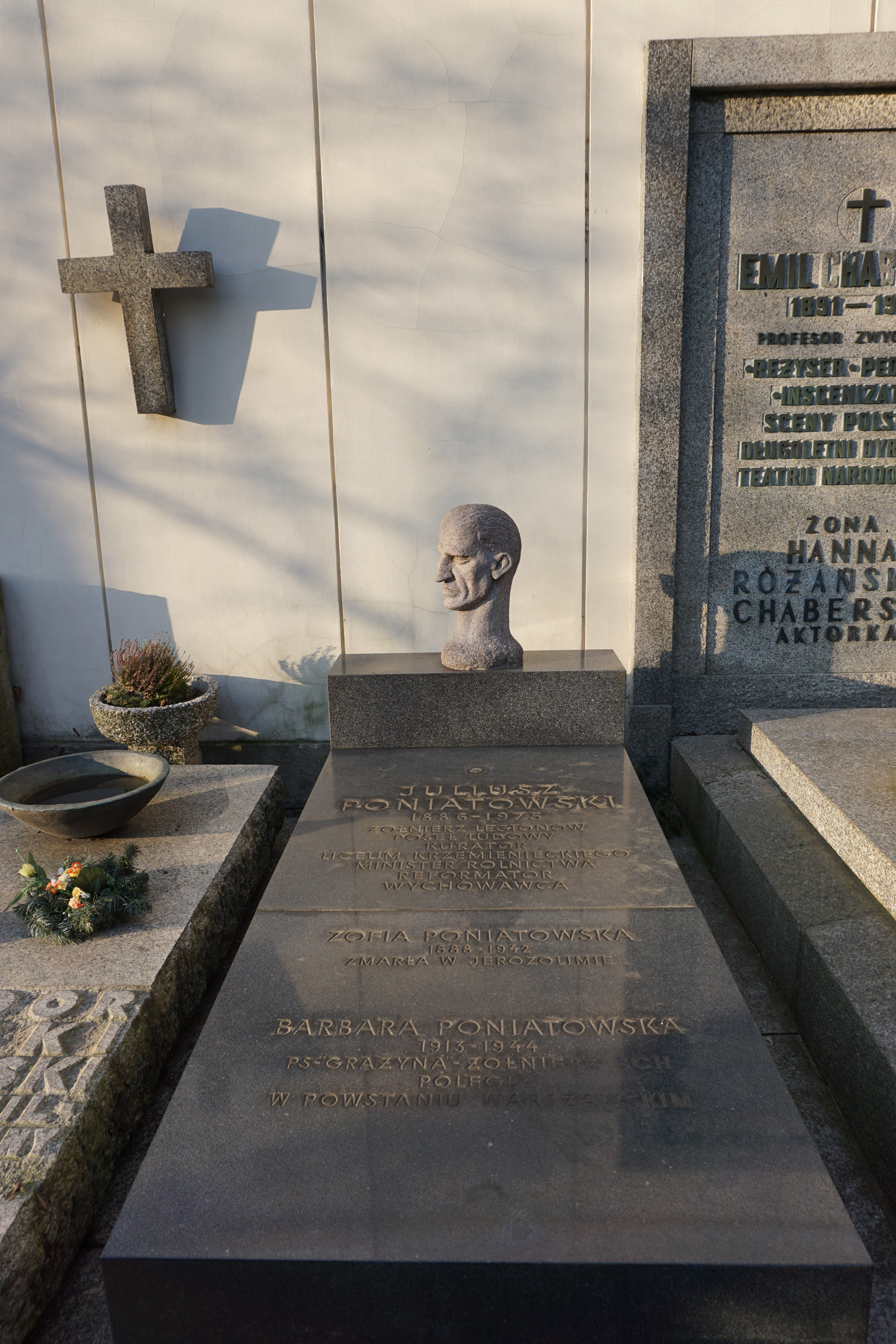 The grave of Juliusz Poniatowski at the Powązki Cemetery (Avenue of Deserved, grave 151)